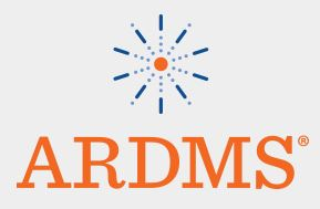 ARDMS emblem